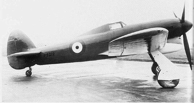 Prototype Hawker Typhoon P5212 taken before its first test flight (24 February 1940).